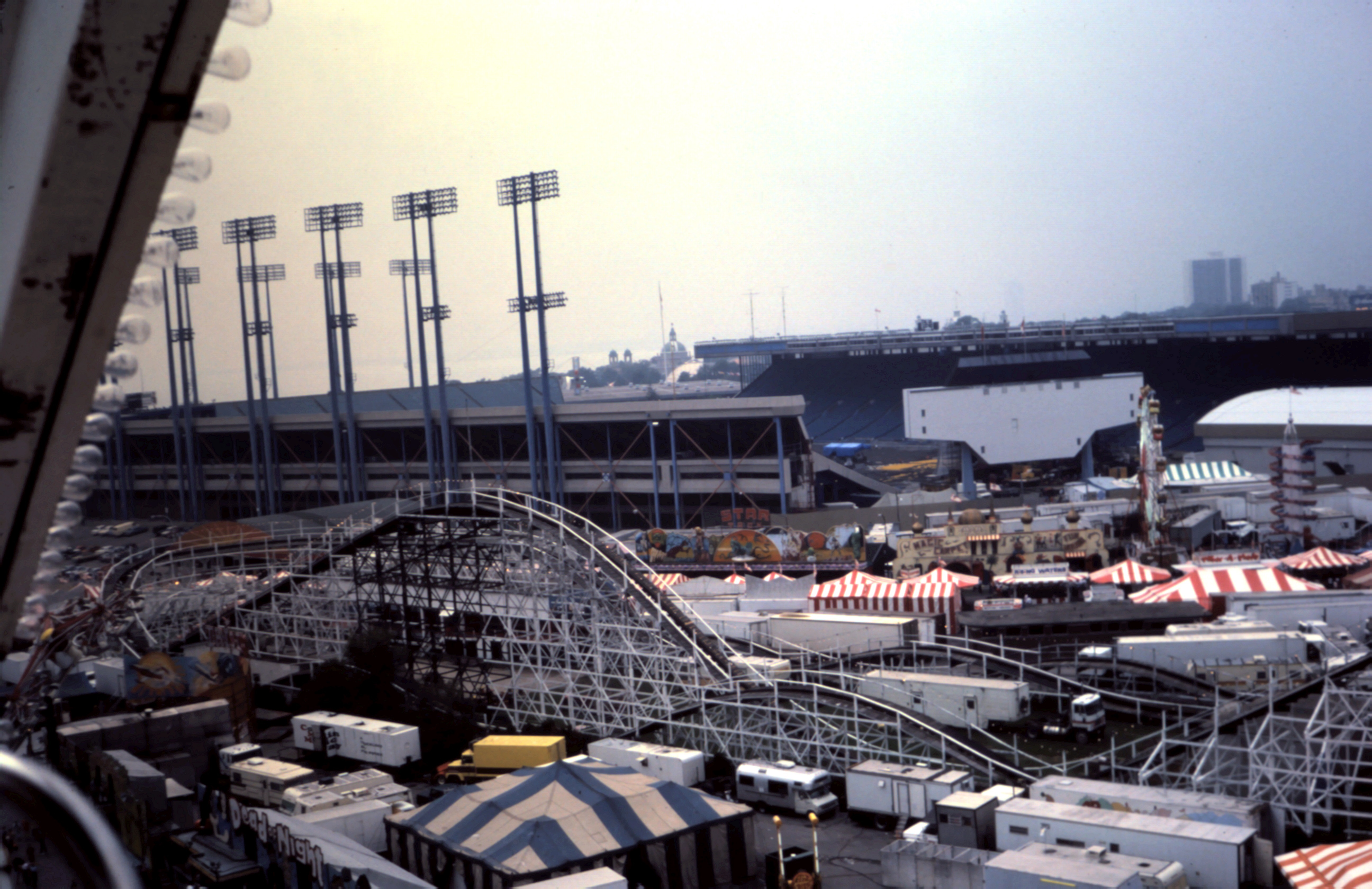 Seen here from the giant ferris wheel is the old rollercoaster, The Flyer, at the Canadian National Exhibition in 1985. It has since been demolished. Also seen behind it is Exhibition Stadium, then an important sport and entertainment venue. It, too, has since been demolished.